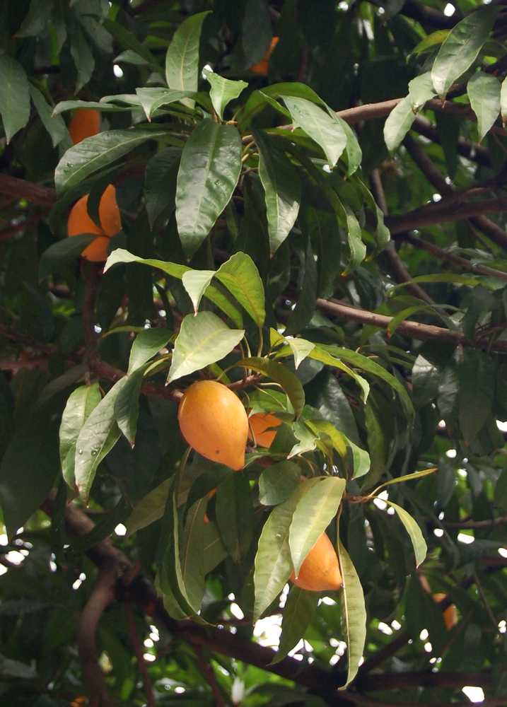 Pouteria campechiana, fruiting branch. Ragunan Zoo, Jakarta.